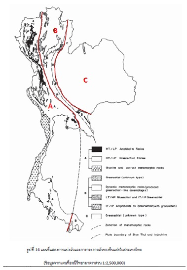 โซนหินแปรในประเทศไทย